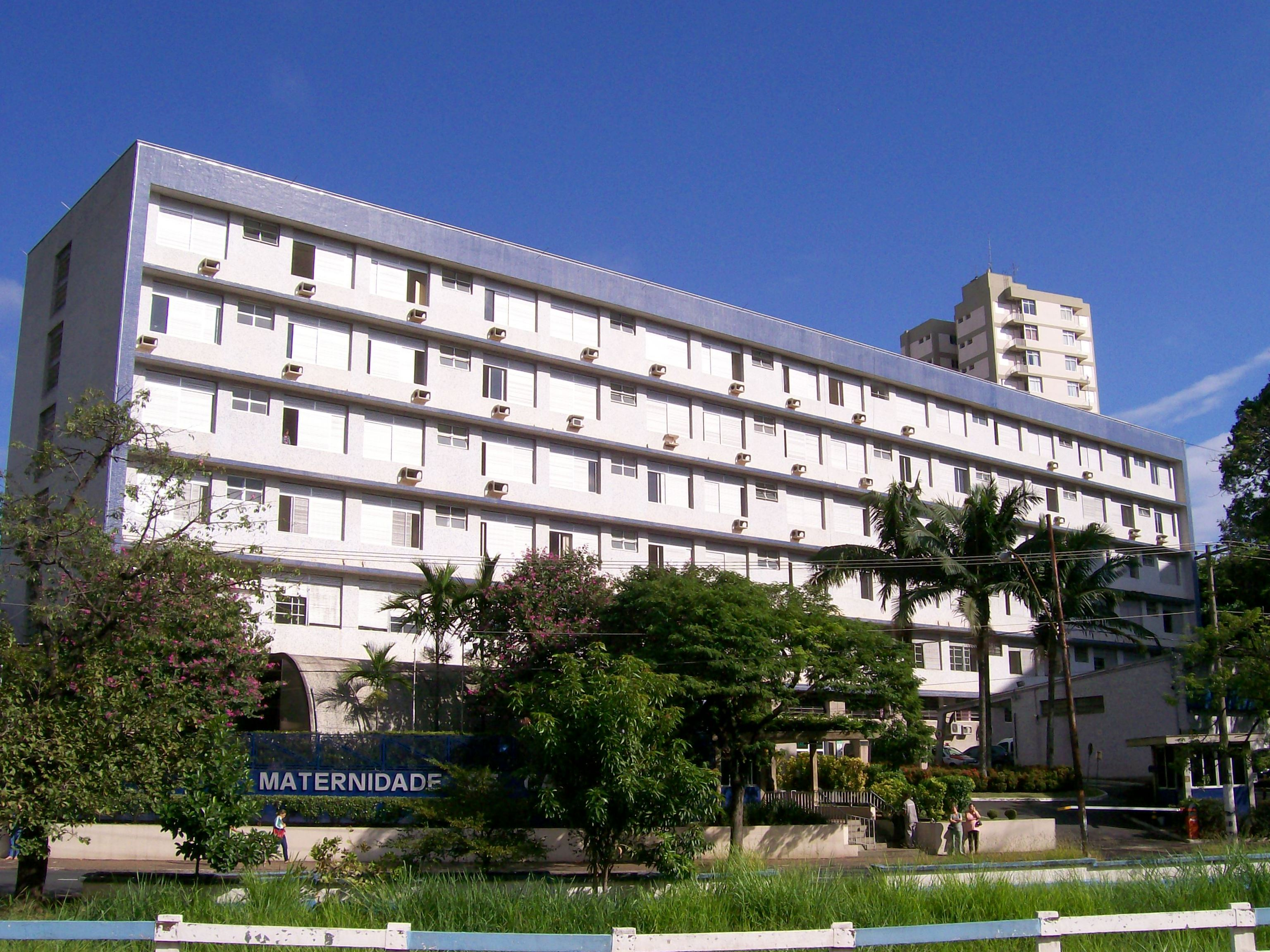 Maternidade de Campinas, a hospital for childbirths in Campinas, Brazil